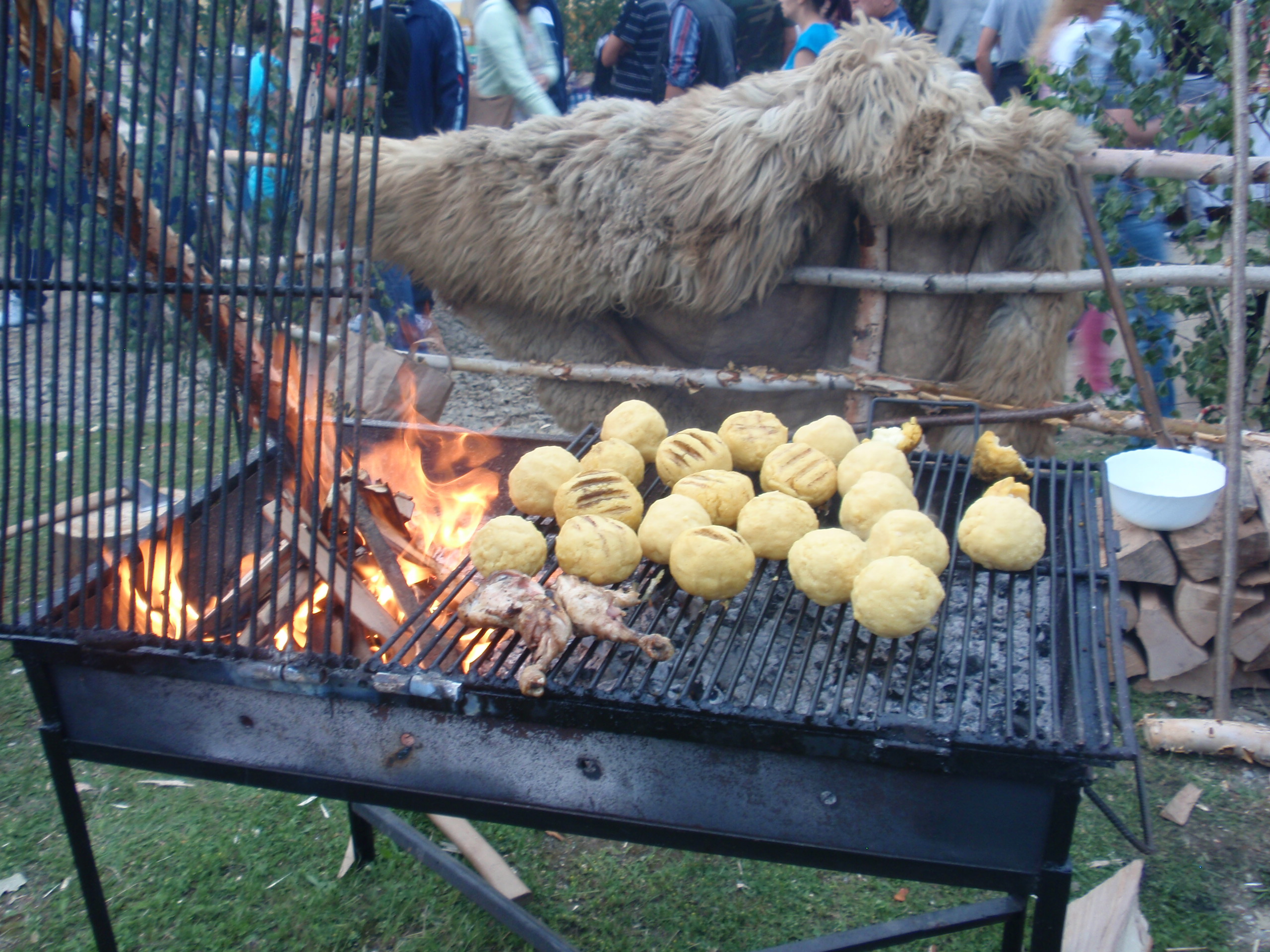 cocoloşi, balls of mămăligă (romanian polenta) filled with brânză (cheese), that are put on the barbecue. This is a traditional dish of romanian sheperds (ciobani). Photo take at Gura Râului, Sibiu